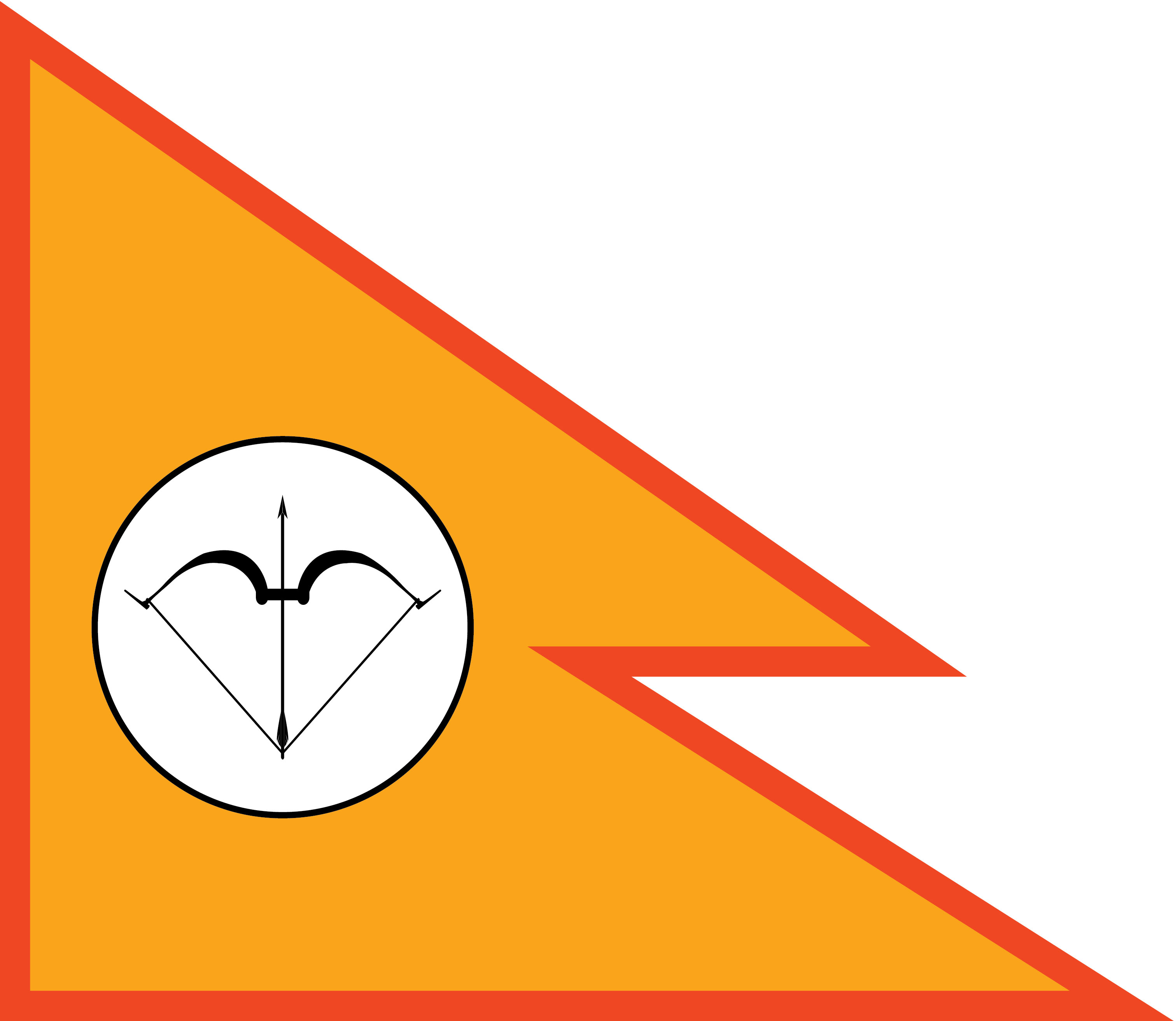 Kirat Flag with the motif